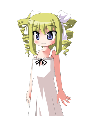 Original character